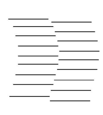 Abutting line illusory contours